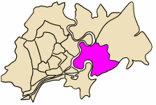 position of district 2 in an outline of the core area of HCMC (Ho Chi Minh City, Vietnam) - ISO code VN-F-HC. Keywords: map, outline, city, Ho Chi Minh City, HCMC, HCM, district 2, quan 2.